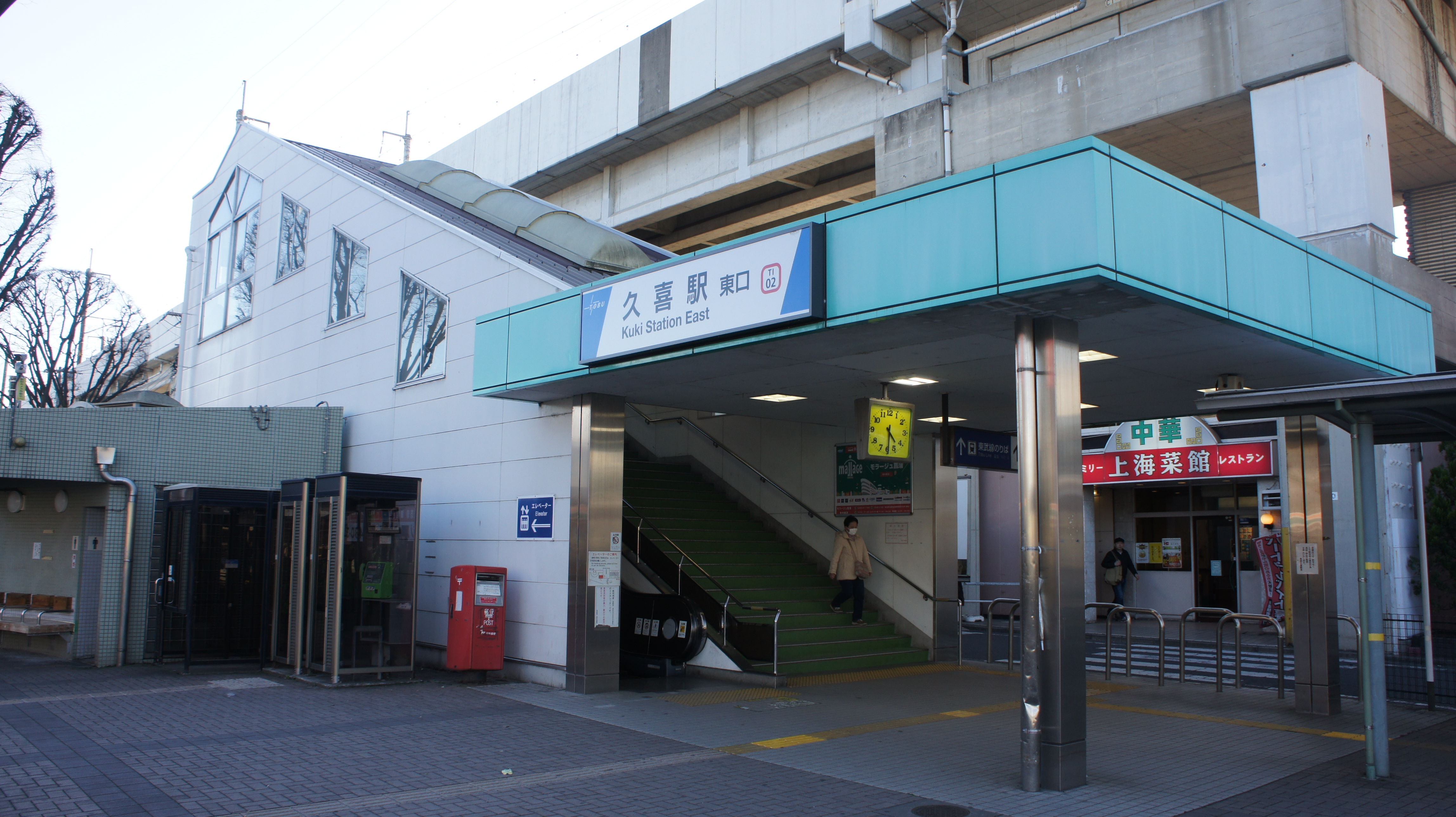 East Exit of Kuki Station Sony NEX-3